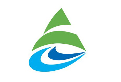 Flag of Kainan Wakayama